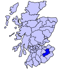 Ettrick & Lauderdale district 1975-1996. Created by me, Keith Edkins, incorporating region outlines from File:Scotland1974Numbered.png by Morwen